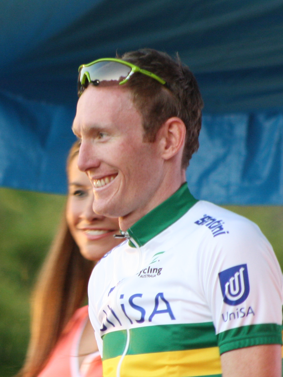 If ever a man was going "Shit, what do I do now!"